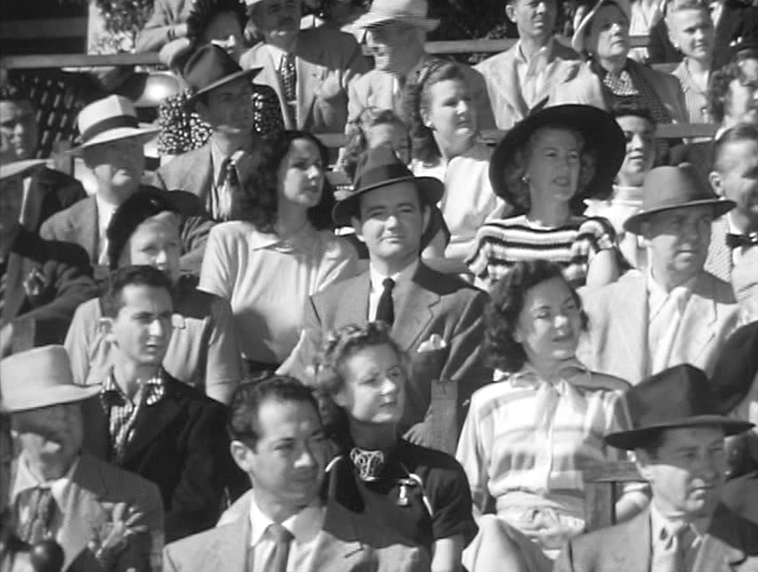 Alfred Hitchcock's "Strangers on a Train" trailer. Tennis. Bruno (Robert Walker)